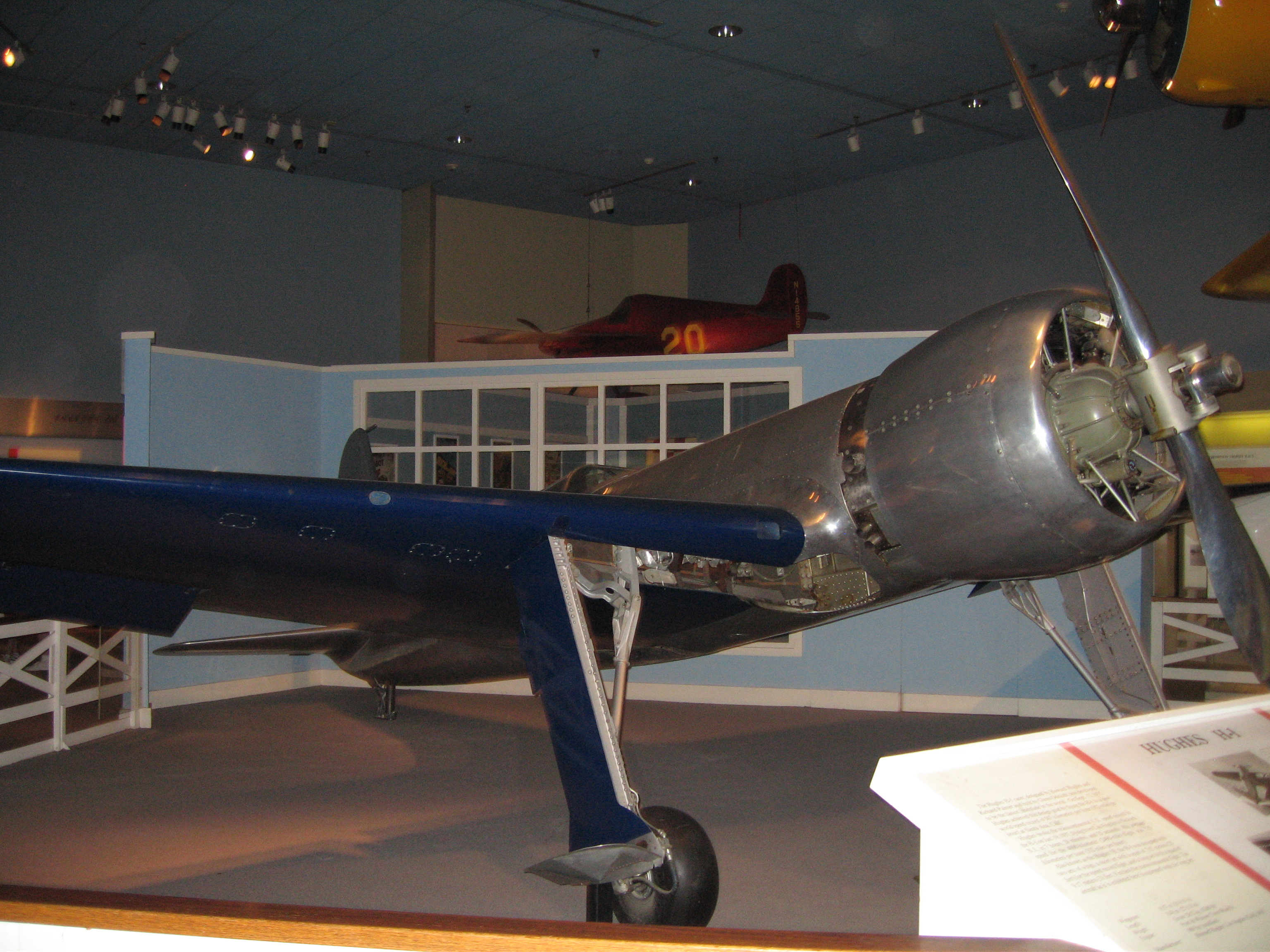 The original Hughes H-1 Racer, on display at the National Air and Space Museum.